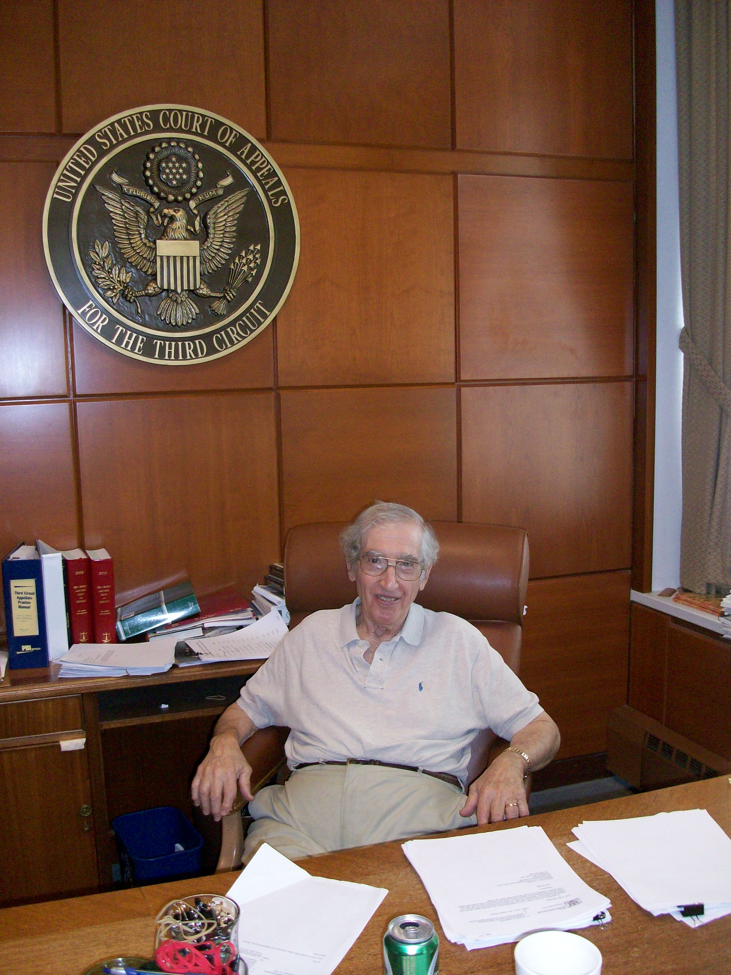 Judge Morton I. Greenberg, United States Court of Appeals for the Third Circuit